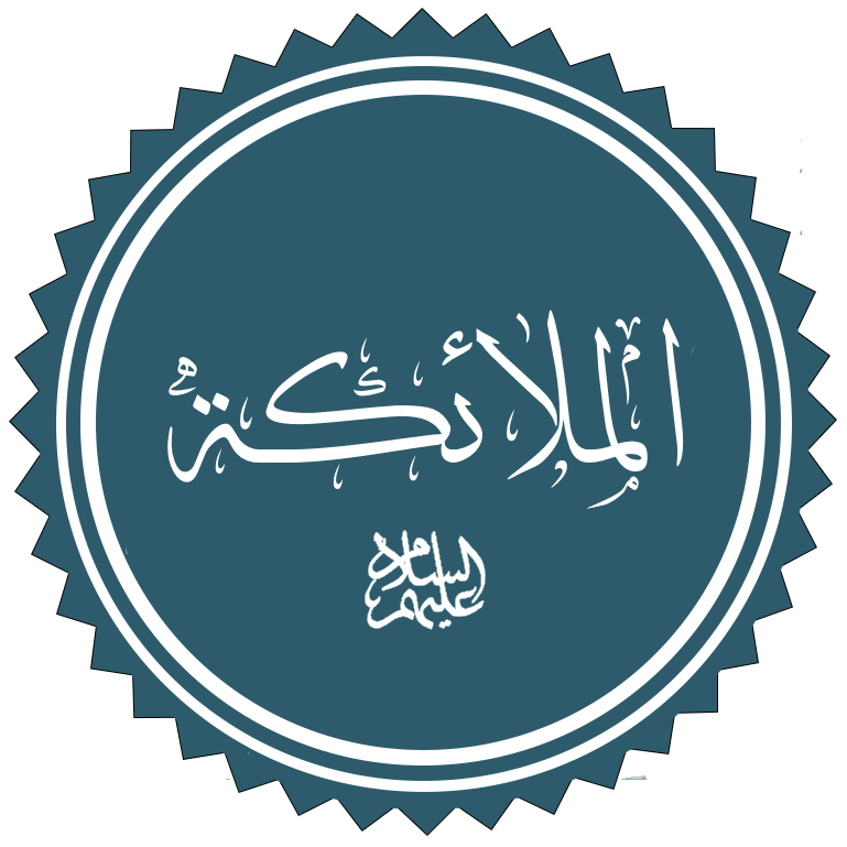 Angels in Islam calligraphy